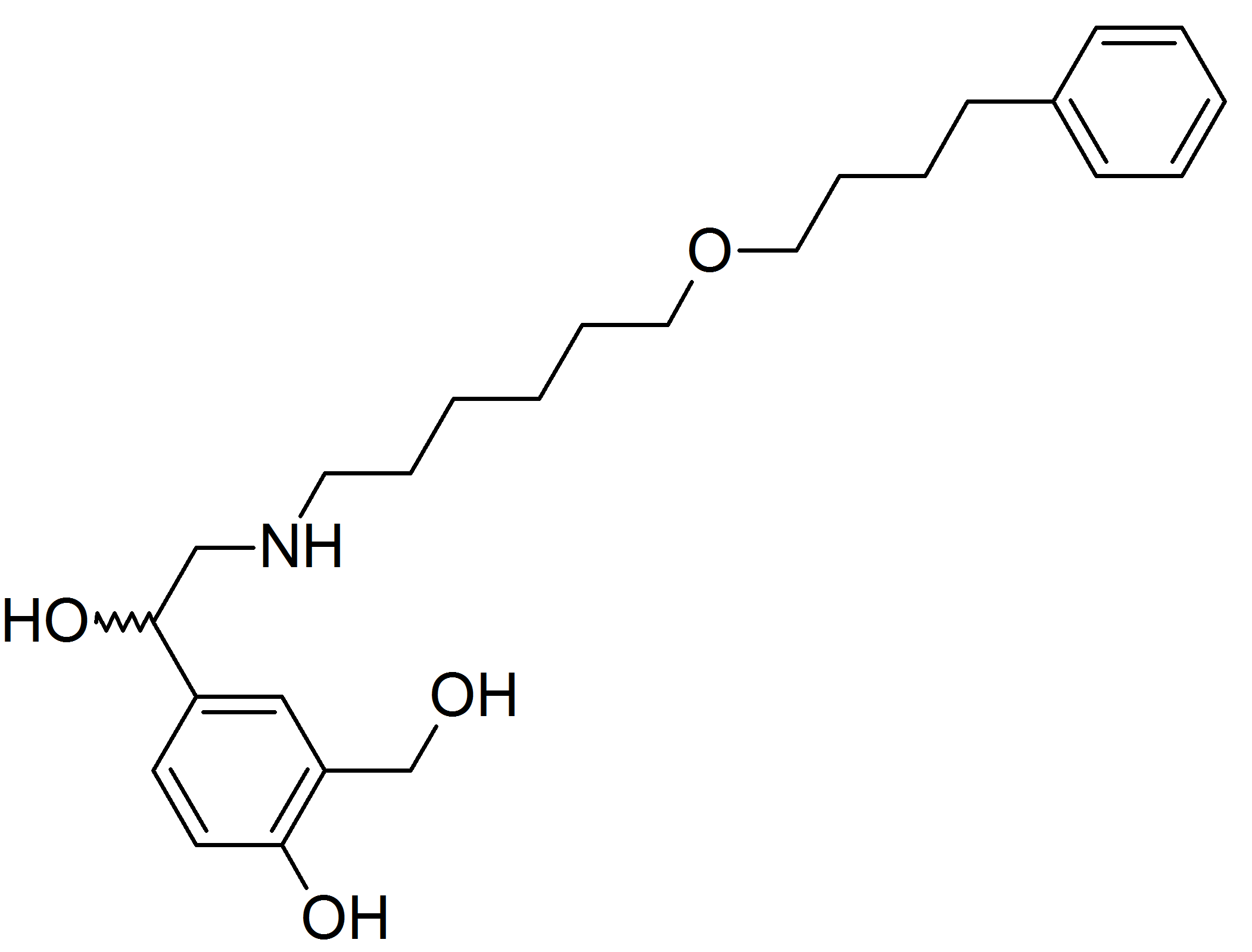 Structure of Salmeterol